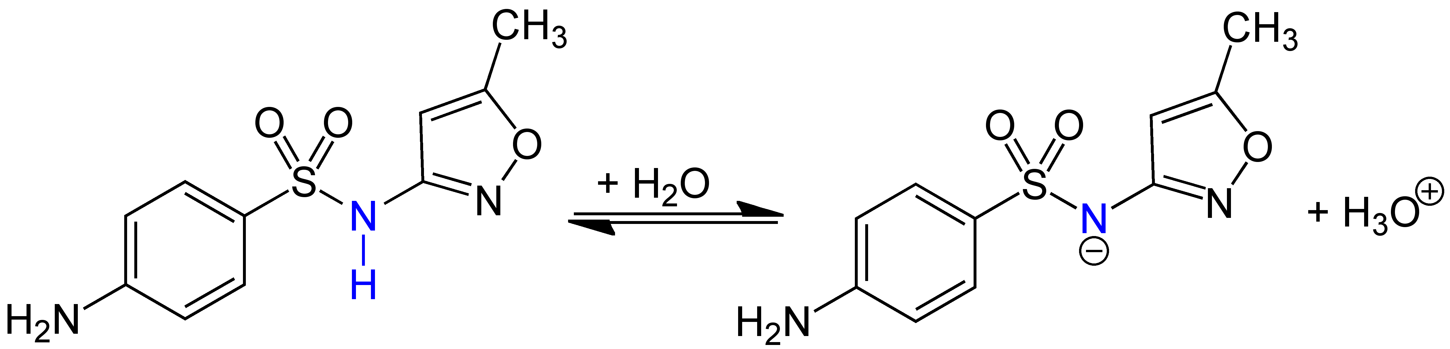 NH-Acidity_Sulfamethoxazole